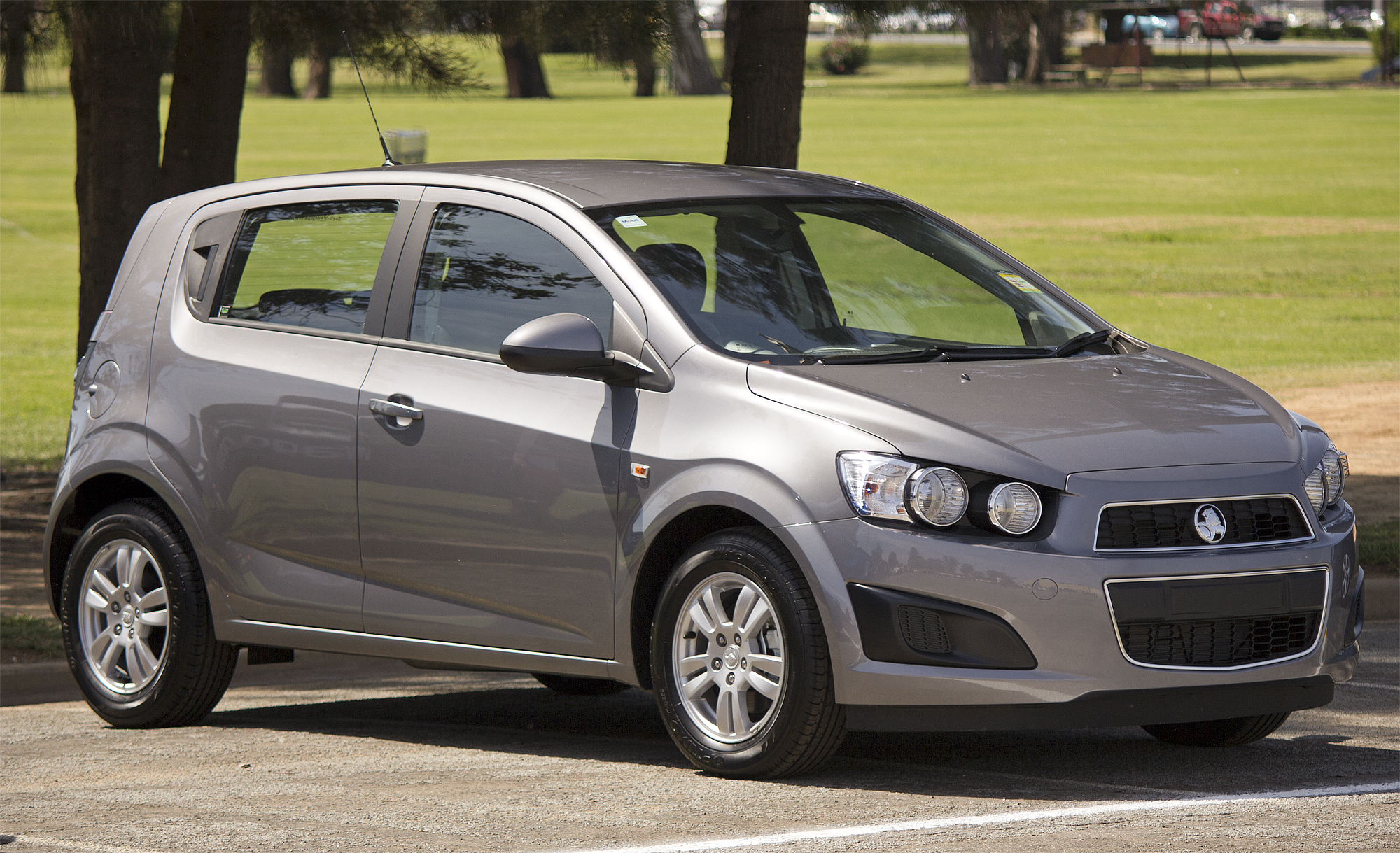 2011 Holden TM Barina hatchback photographed in Wagga Wagga, New South Wales.